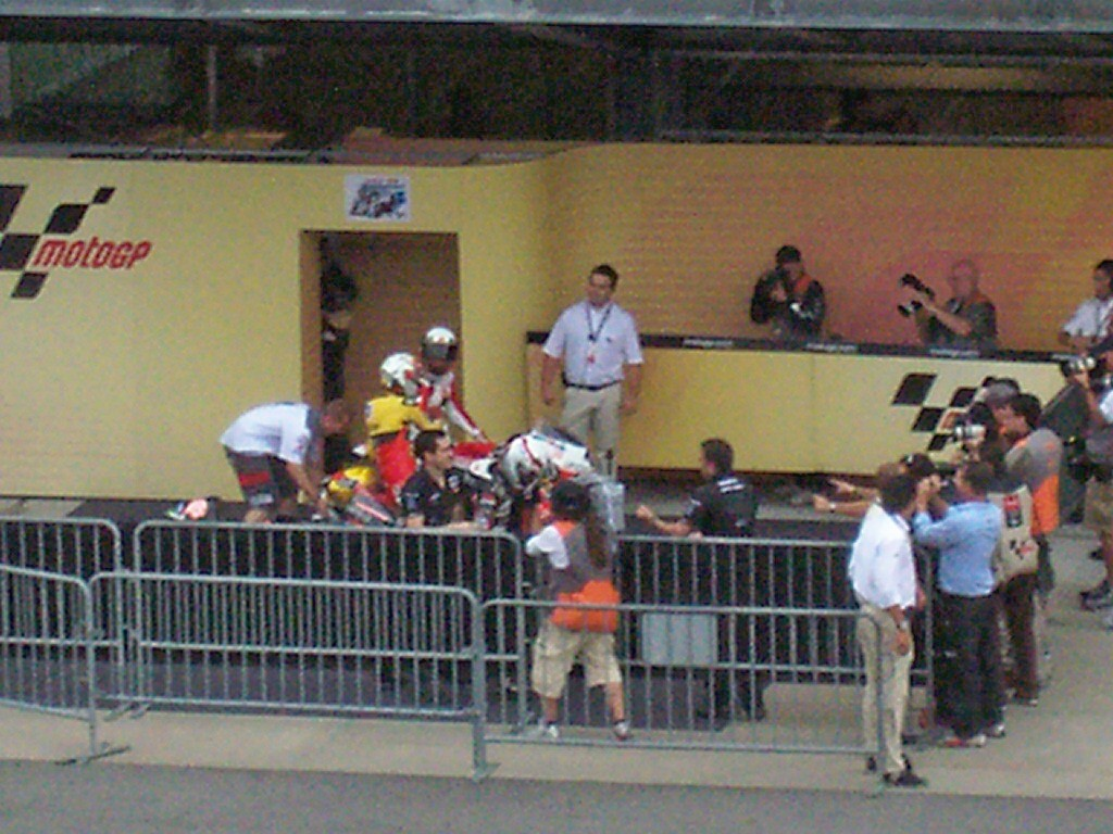 The top 3 finishers in the 125cc race at the 2008 Indianapolis motorcycle Grand Prix.